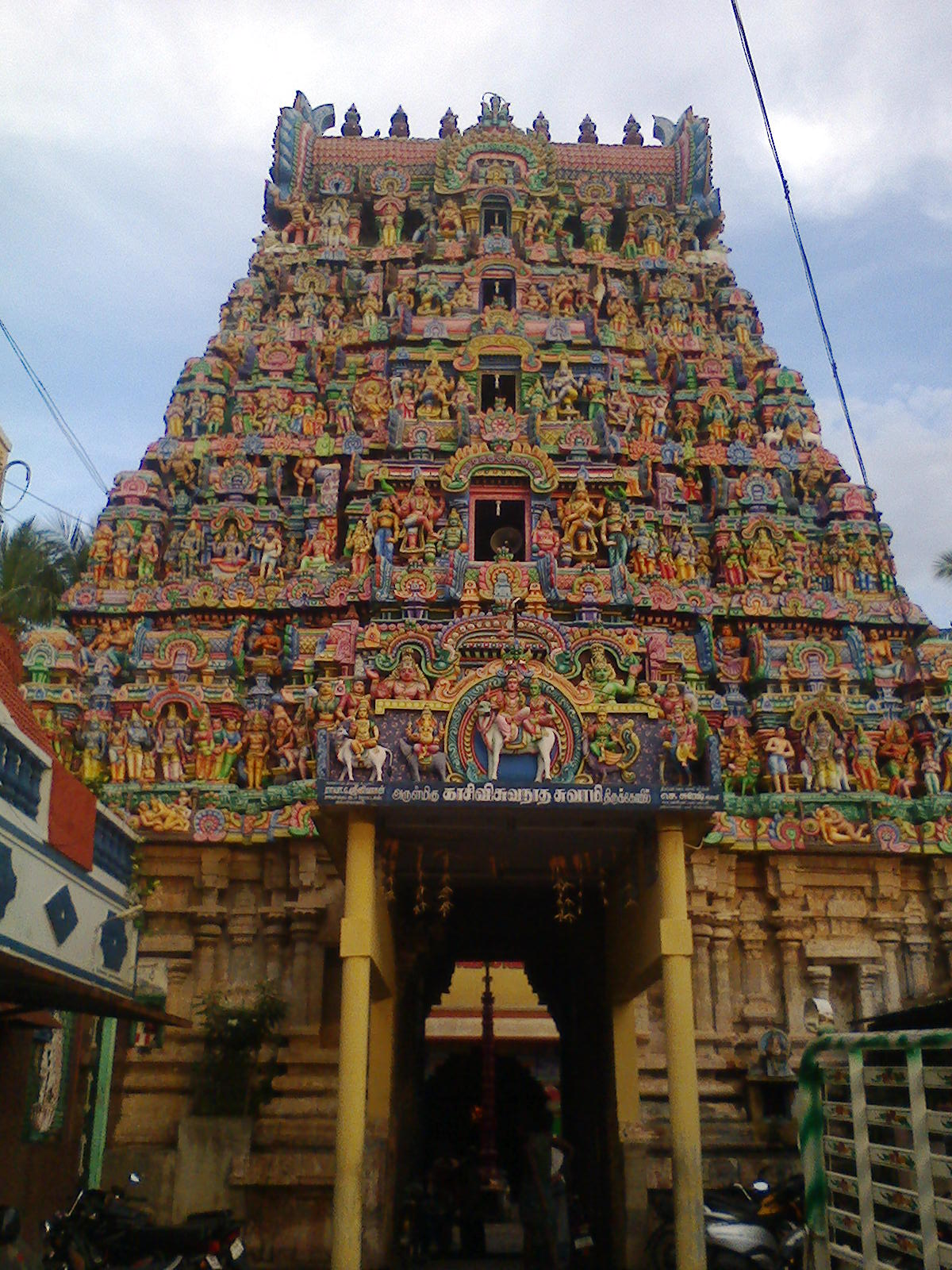 கும்பகோணம் காசிவிசுவநாதர்கோயில் கோபுரம்